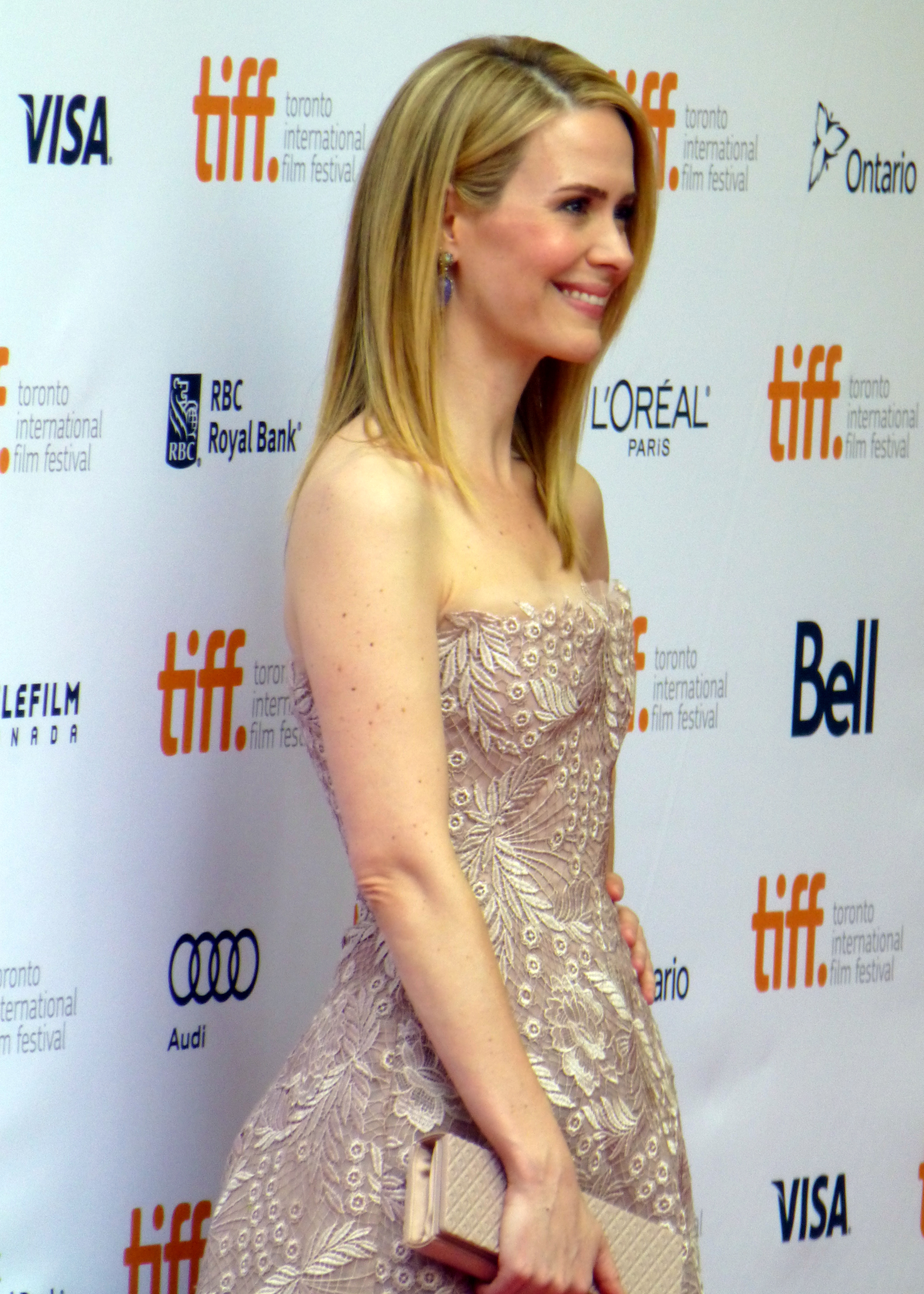 Sarah Paulson at the premiere of 12 Years a Slave, 2013 Toronto Film Festival